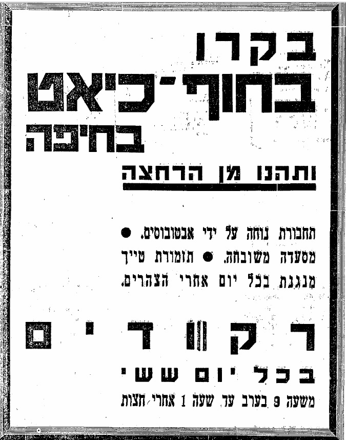 Khayat Beach Advertisement Translation: Visit Khayat Beach Enjoy the swimming Easy transportation via bus service Excellent restaurant Orchestra plays every afternoon dancing every Friday from 9pm until 1am